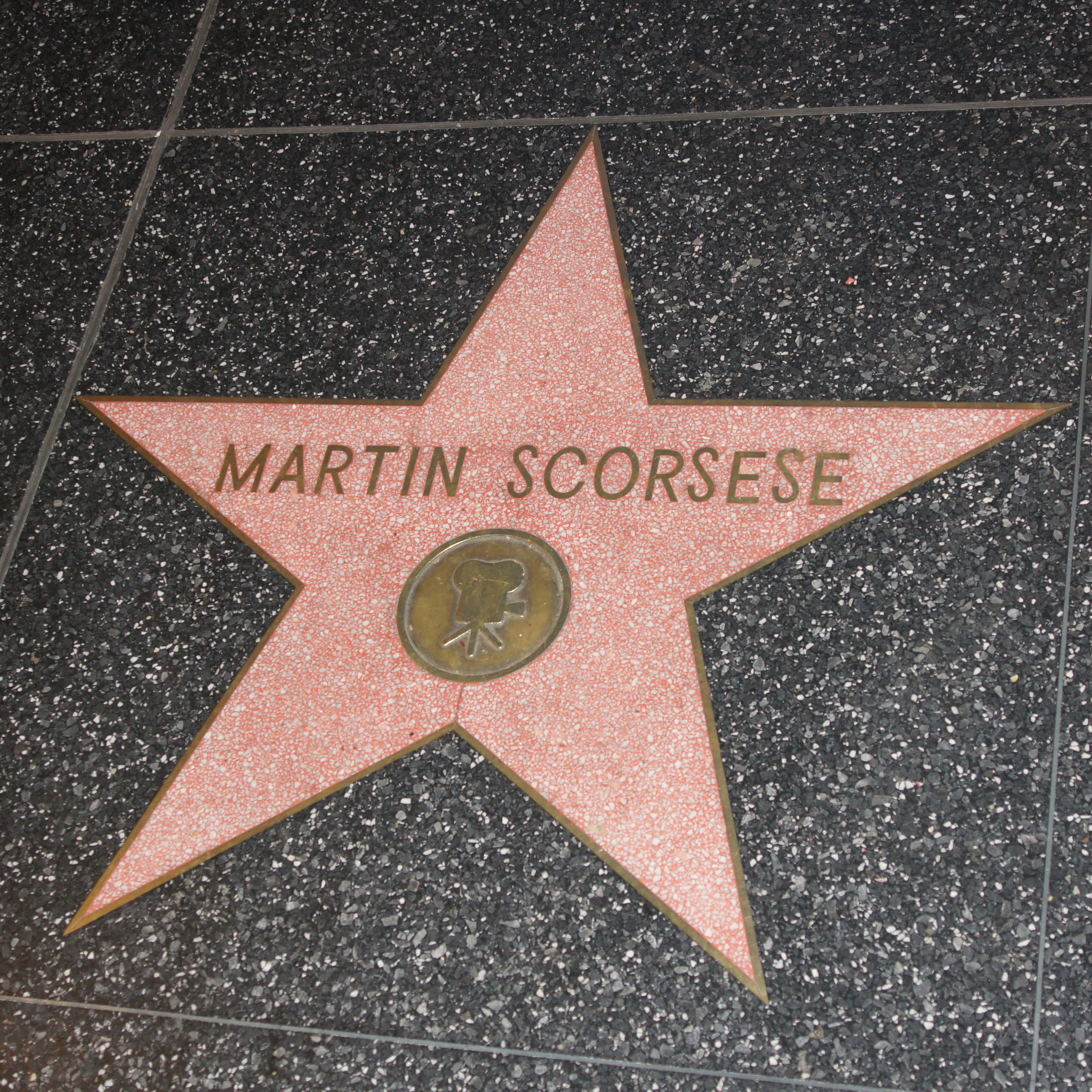 Martin Charles Scorsese (Walk of Fame Star)